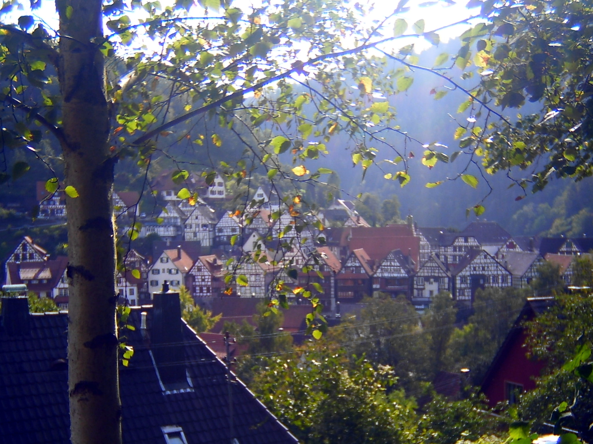 Schiltach old town from North